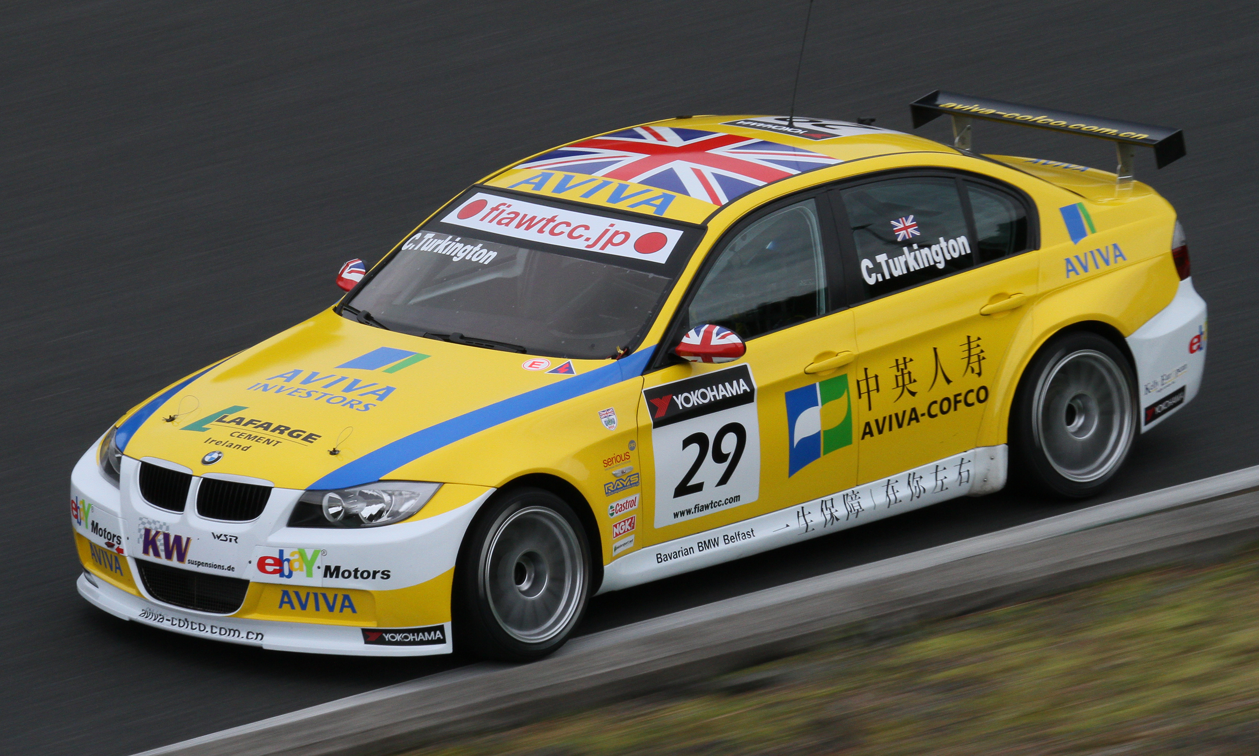 World Touring Car Championship 2010 Race of Japan: Colin Turkington (Team Aviva-COFCO) during the warm-up session on Sunday.